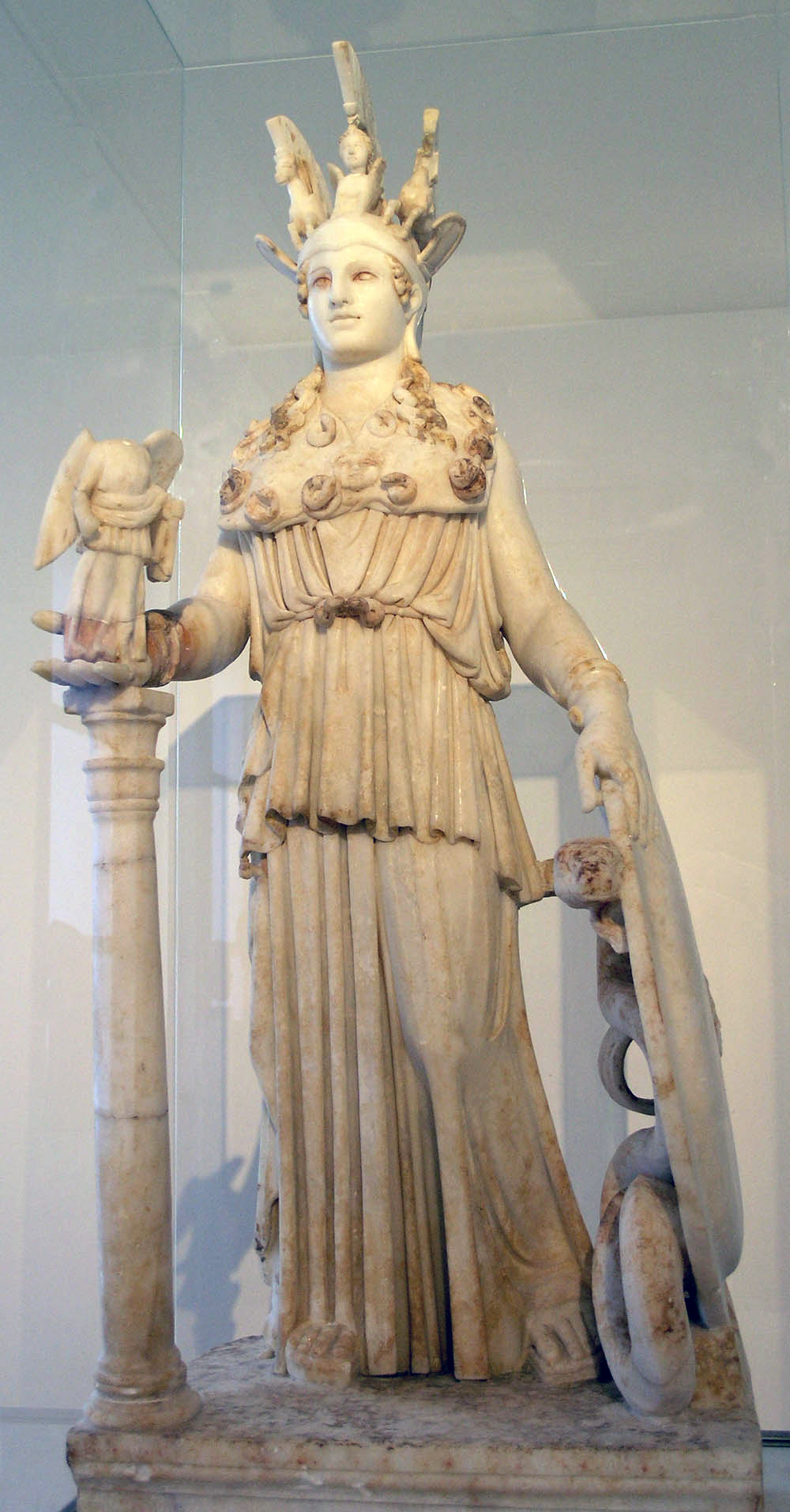 Athena Varvakeion, small Roman replica of the Athena Parthenos by Phidias. Found in Athens near the Varvakeion school, hence the name. First half of the 3rd c. AD.